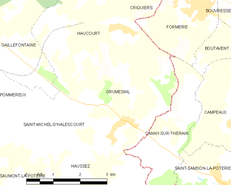 Map of French municipality Grumesnil